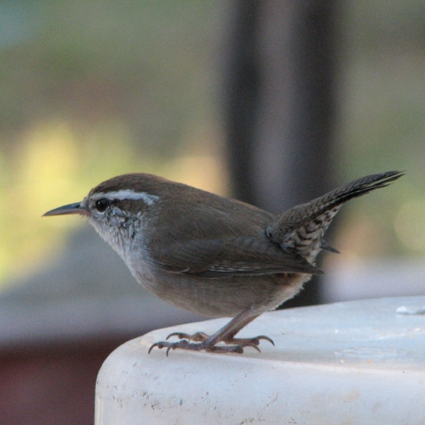 Bewick's wren